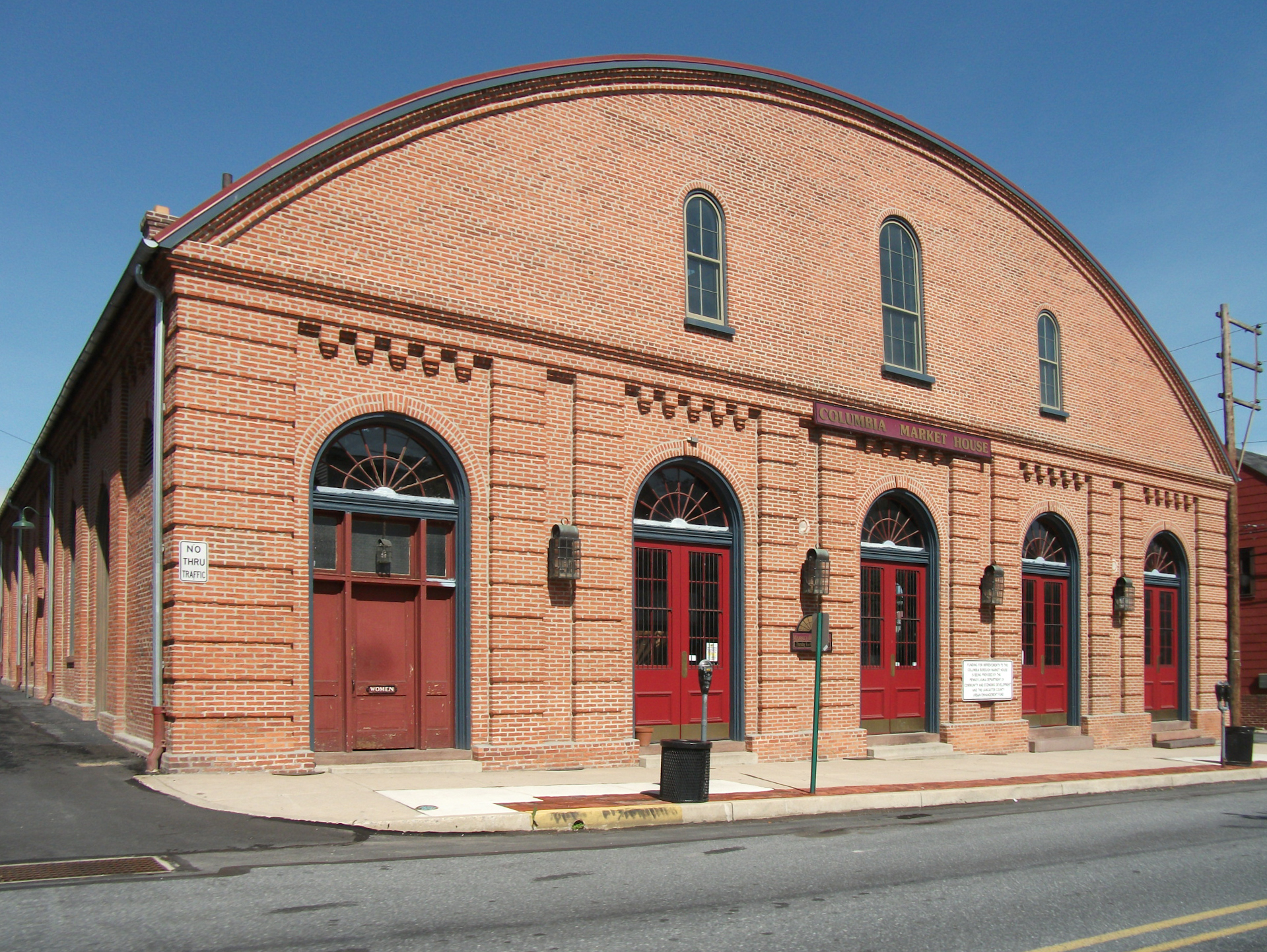 The historic building of Columbia Market House in Columbia, Pennsylvania, USA.